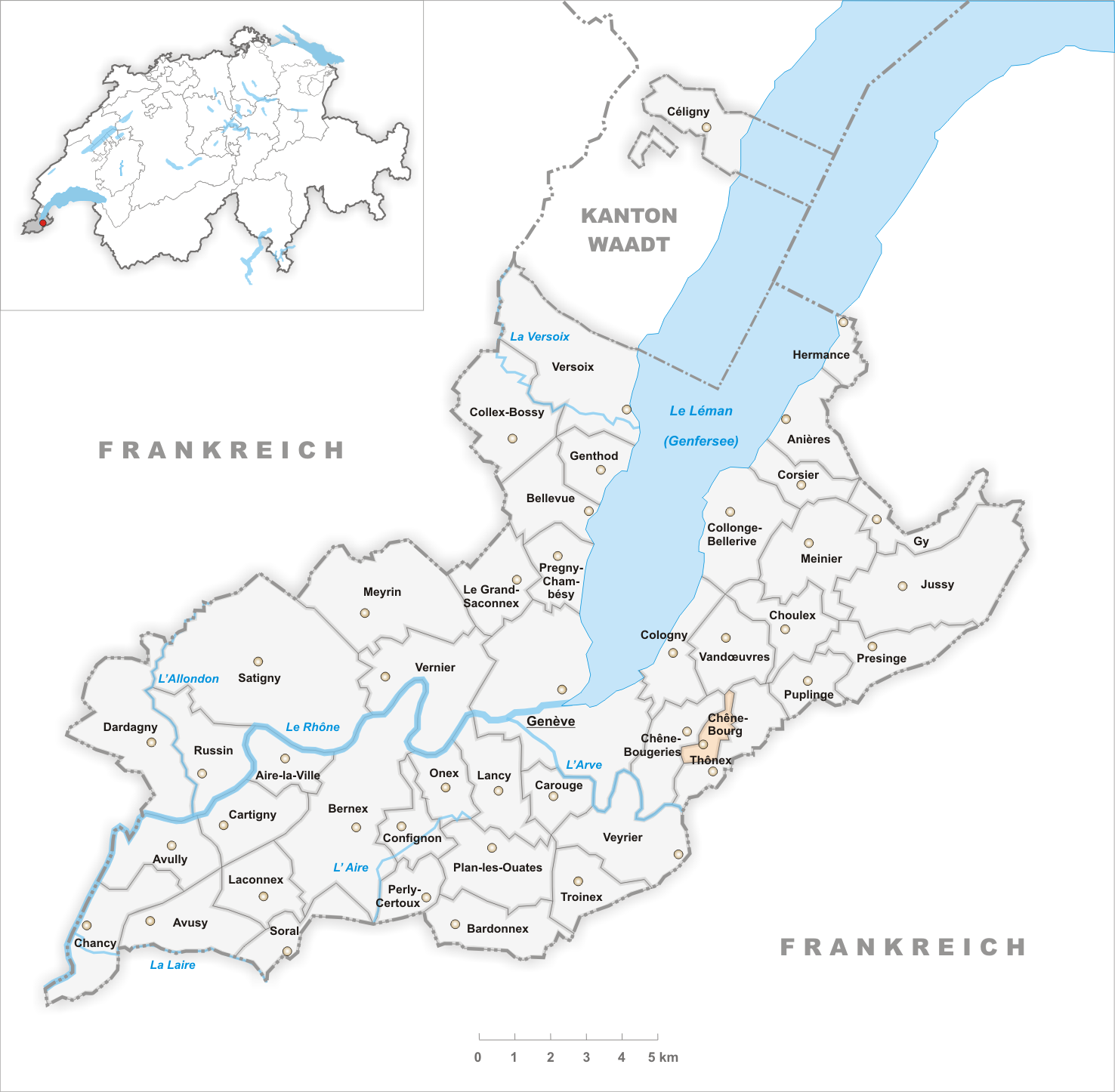 Municipality Chêne-Bourg